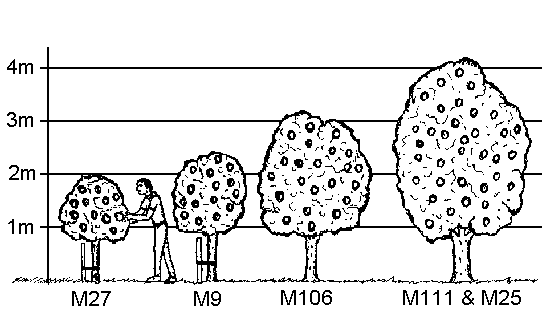 Comparative apple tree sizes using different rootstocks